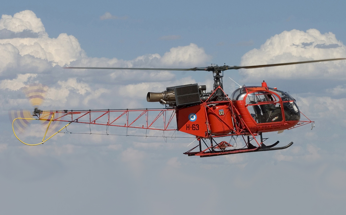 rgentina Air Force Aerospatiale SA-315B Lama